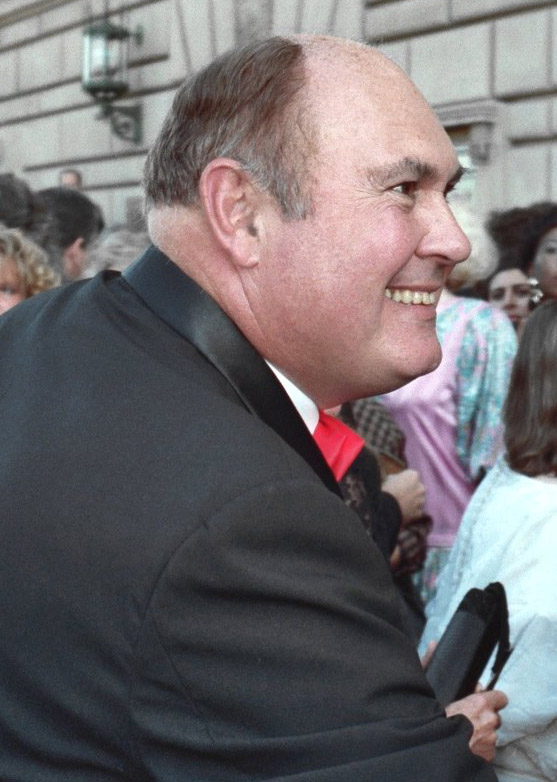 1990 Emmy Awards NOTE: Permission granted to copy, publish, broadcast or post any of my photos, but please credit "photo by Alan Light" if you can. Thanks. Scanned from the original 35MM film negative.